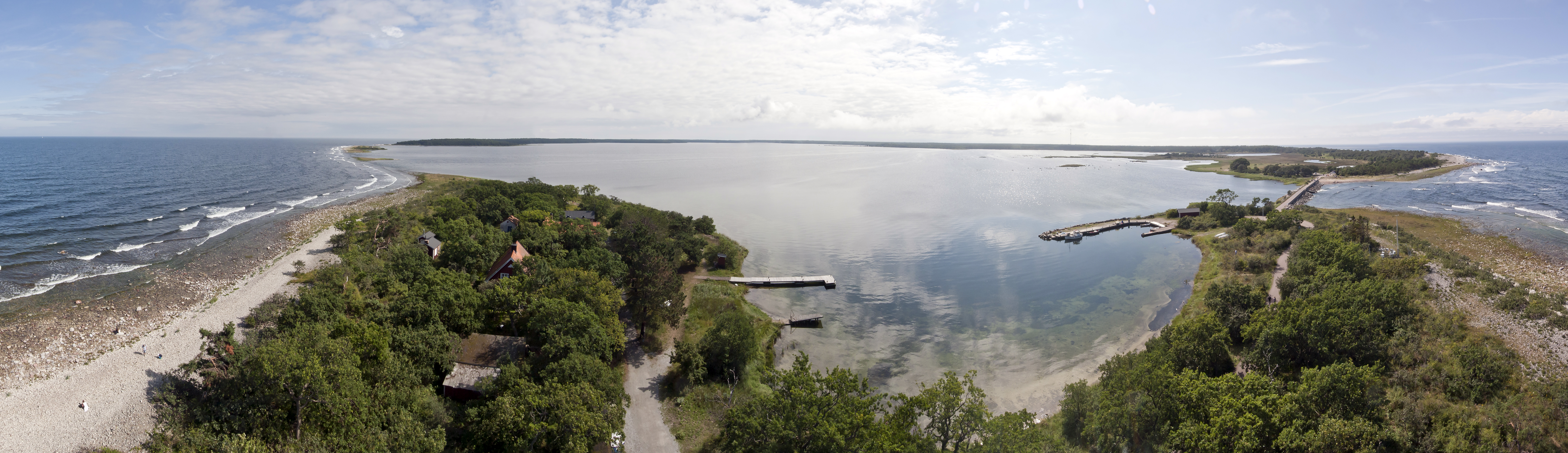 Grankullavik Bay in northern Öland, an island on the east coast of Sweden. Panorama from 18 exposures from the Långa Erik lighthouse.